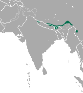 Himalayan Shrew (Soriculus nigrescens) range